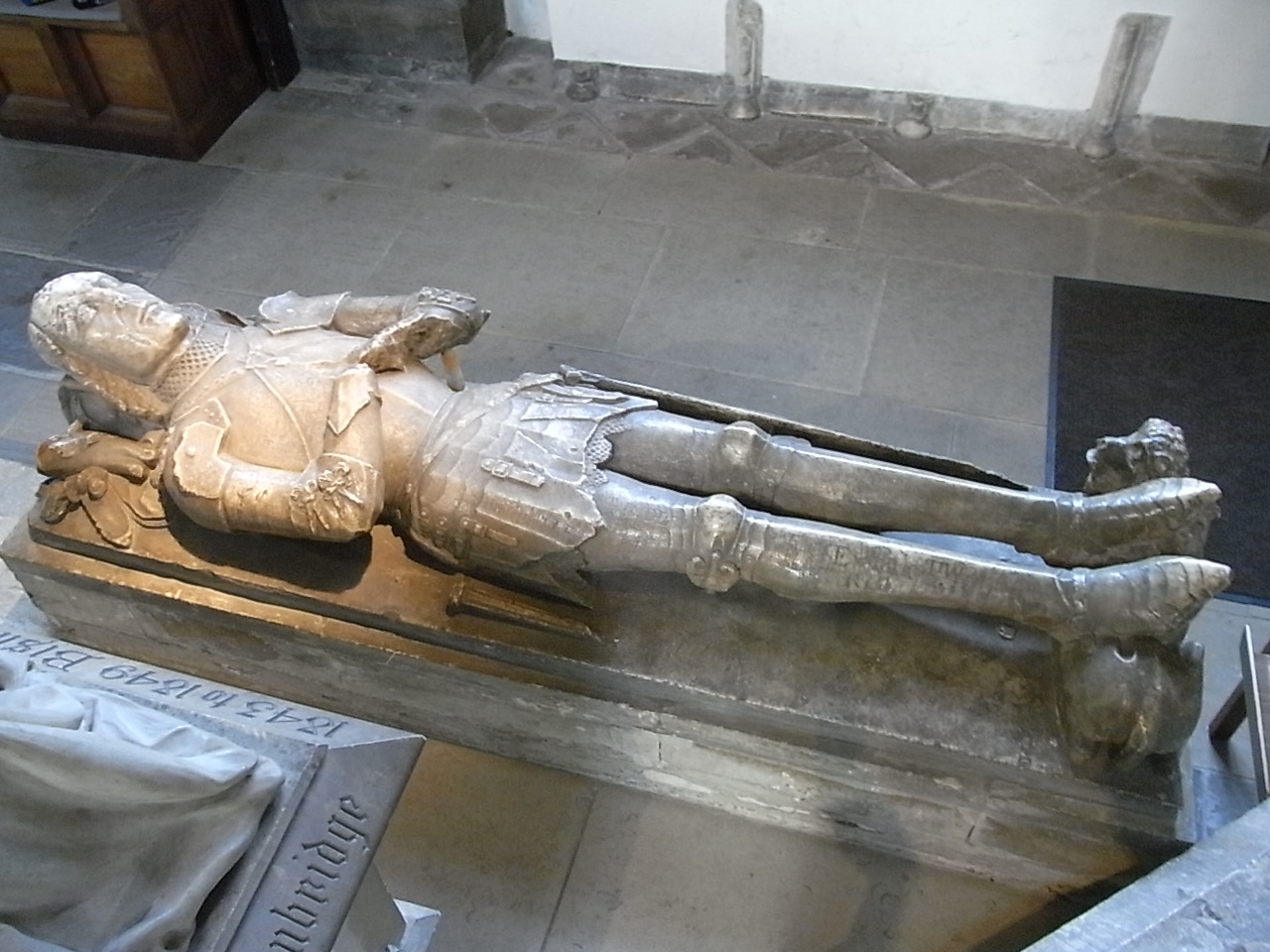 Effigy of Sir David Mathew(d.1484), north aisle, Llandaff Cathedral, Wales